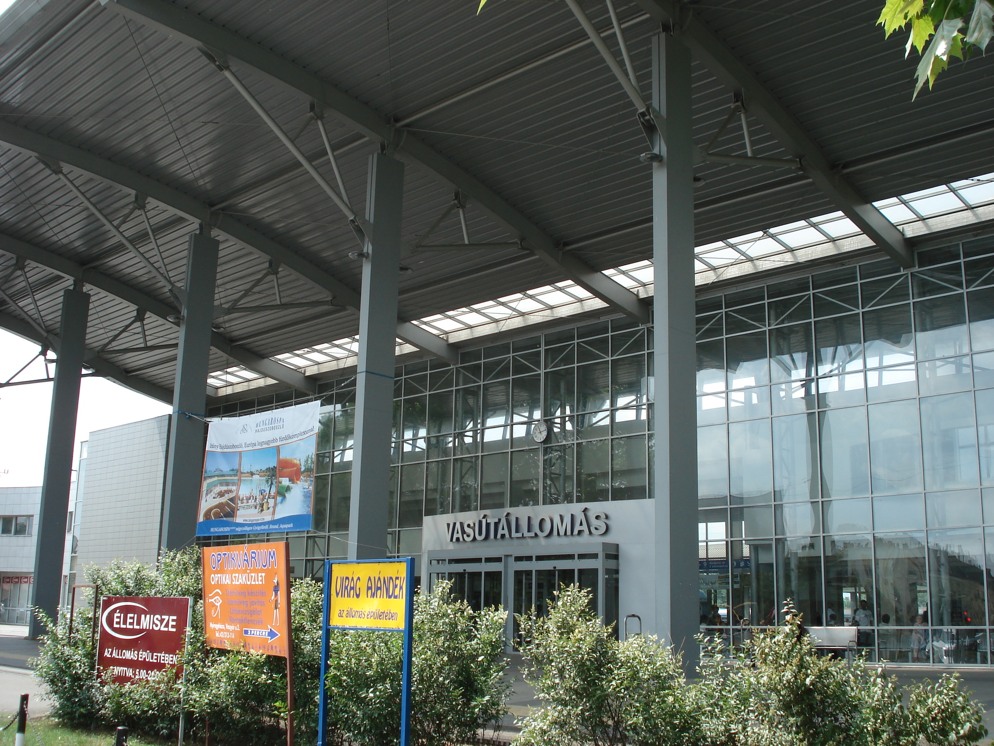 Train station in Nyiregyhaza, Hungary. Taken by David Sallay, June 2007.